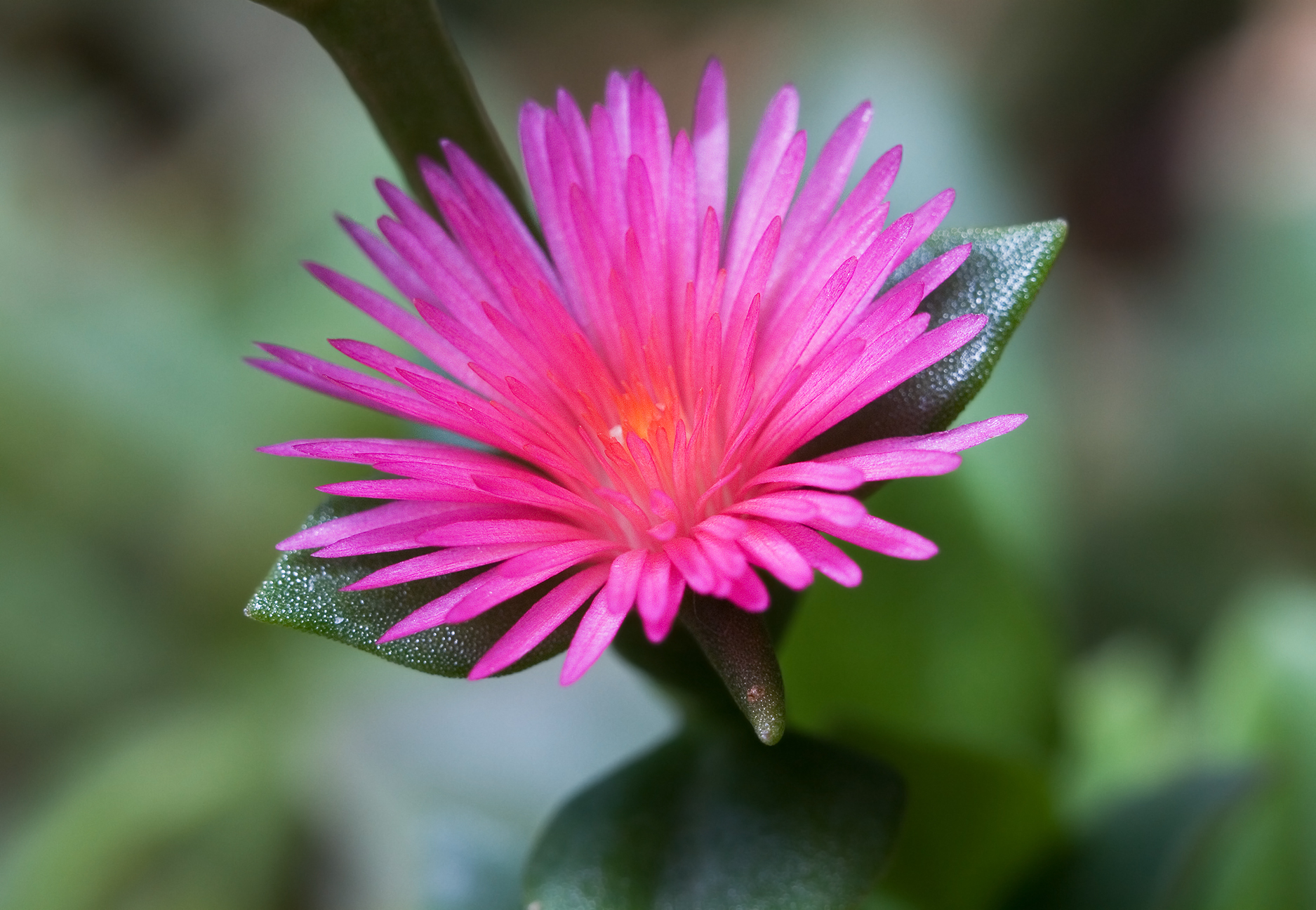 Heartleaf Iceplant (Aptenia cordifolia) Camera data Camera Canon EOS 400D Lens Canon EF 70-200mm f4L w/ 12mm +25mm+ 36mm extension tube Flash Shoot through umbrella aboveleft Focal length mm Aperture f/11 Exposure time s Sensivity ISO